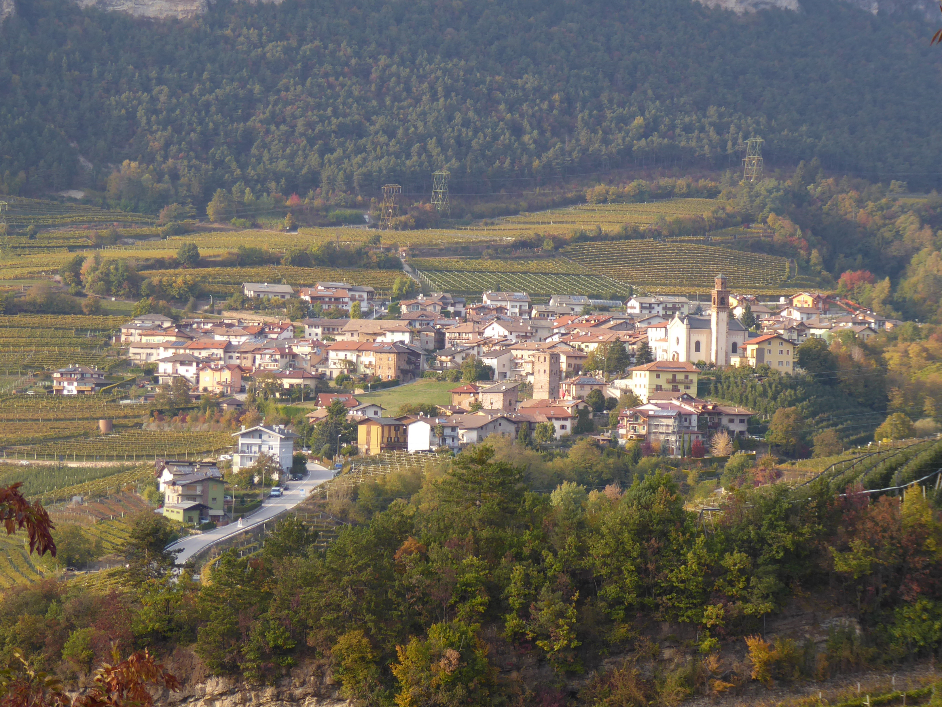 The village of Ville, in the municipality of Giovo, as seen from the San Floriano hill